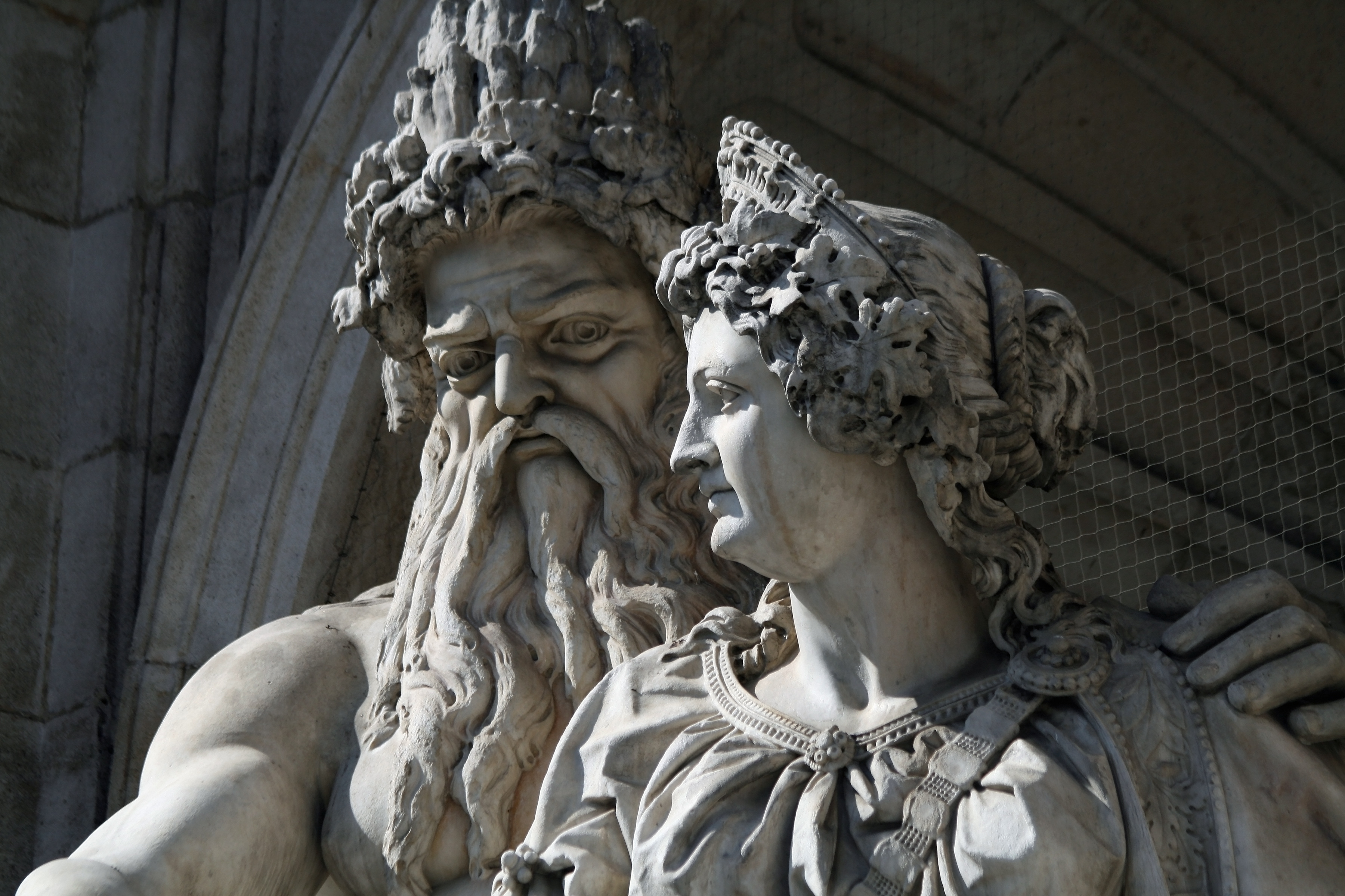 Albrecht's fountain at Albertinaplatz in Vienna, Austria.